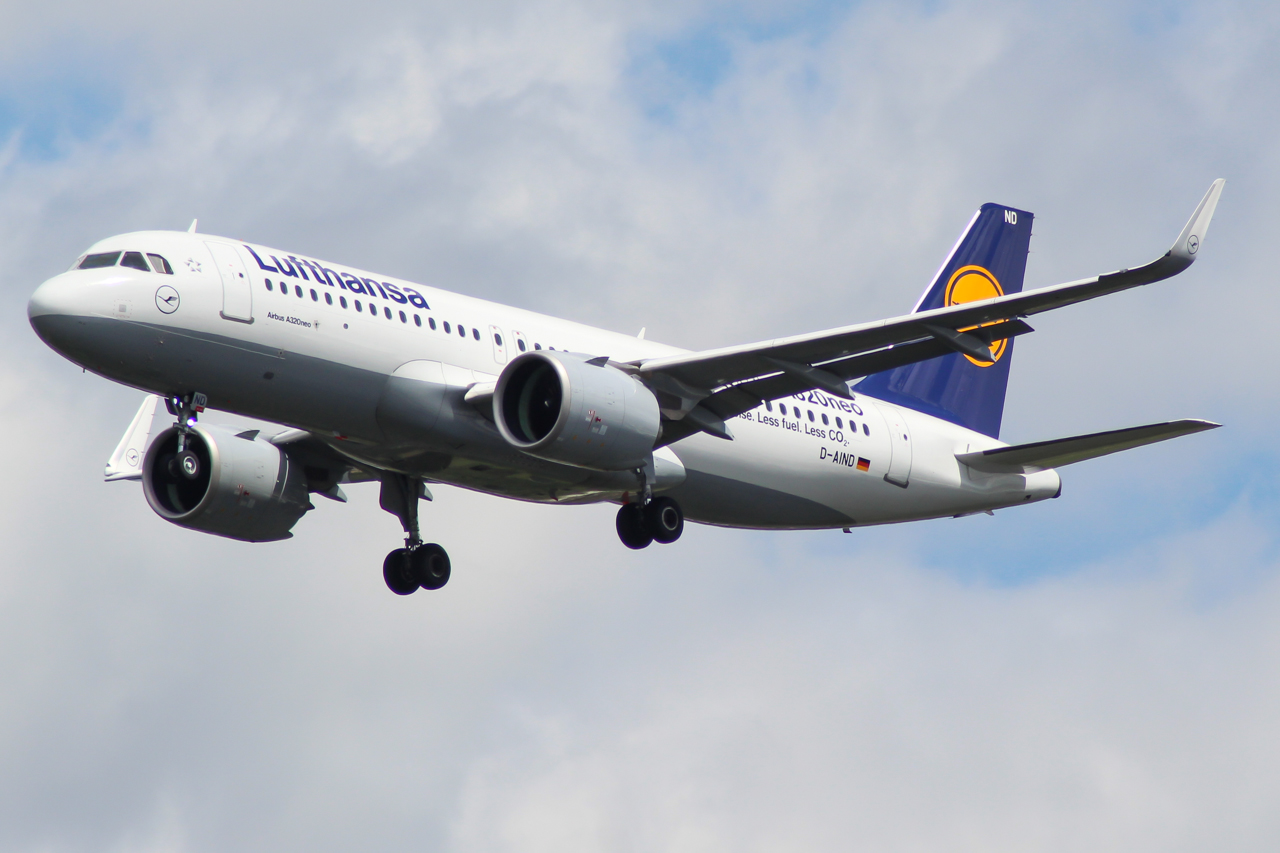 D-AIND A320NEO Lufthansa